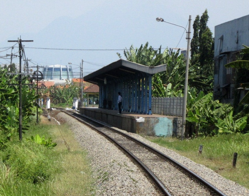 Pagerwojo Train Halt seen from afar.